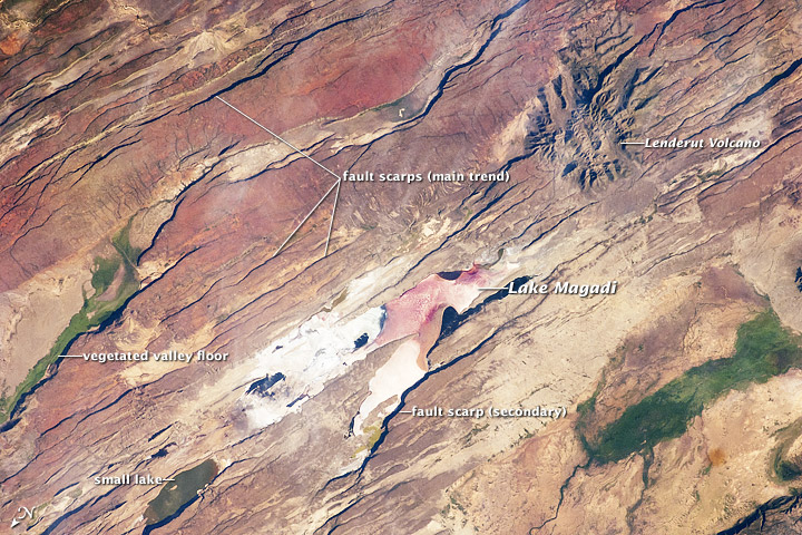 East African Rift Valley, Kenya, annotated version Astronaut photograph ISS030-E-35487 was acquired on January 14, 2012, with a Nikon D2Xs digital camera using a 1800 mm lens, and is provided by the ISS Crew Earth Observations experiment and Image Science & Analysis Laboratory, Johnson Space Center. The image was taken by the Expedition 30 crew. The image has been cropped and enhanced to improve contrast